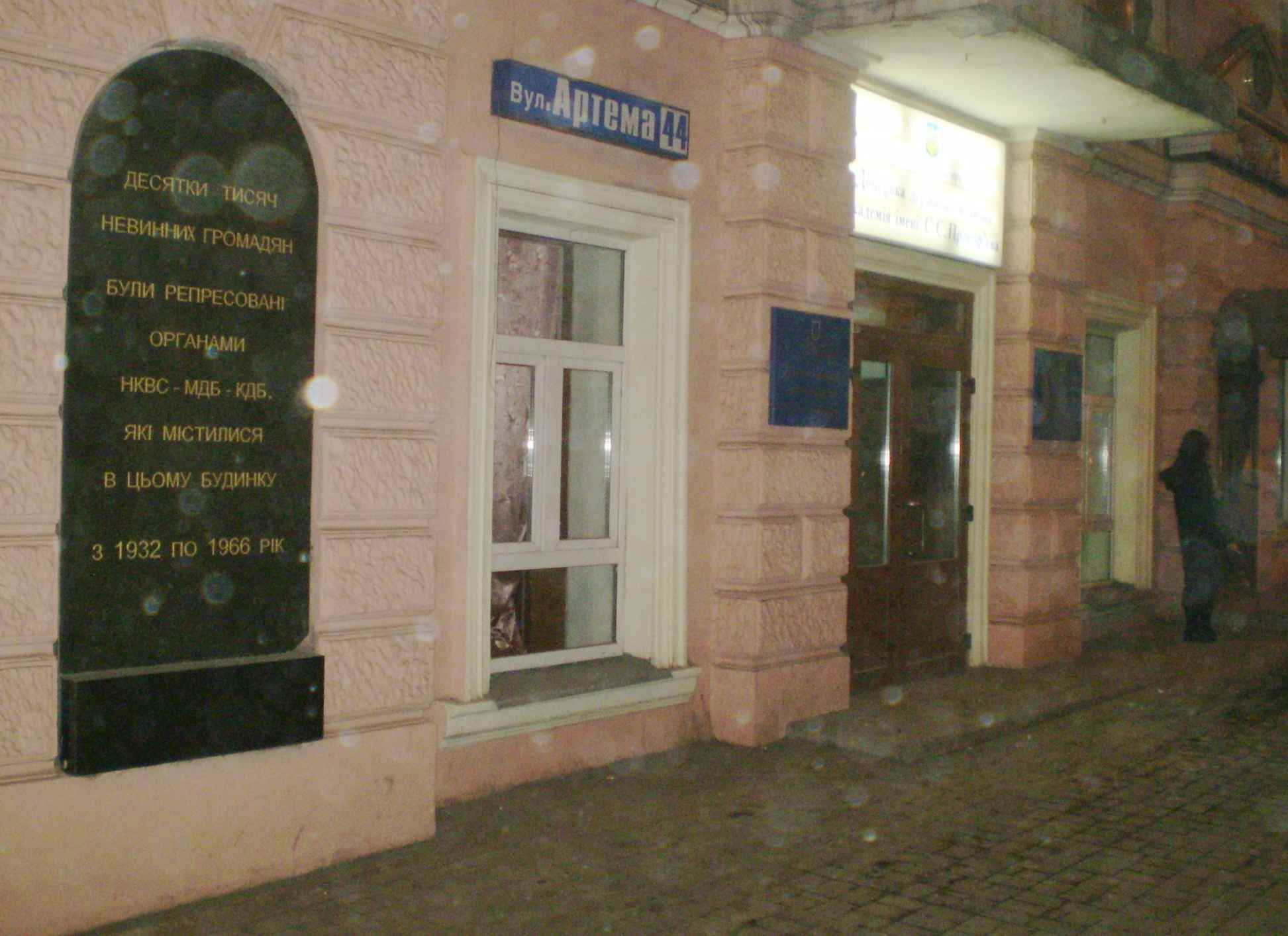 Conservatoire in Donetsk